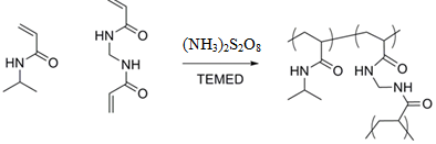 Free-Radical Polymerization of poly(N-isopropyl acrylamide) hydrogel